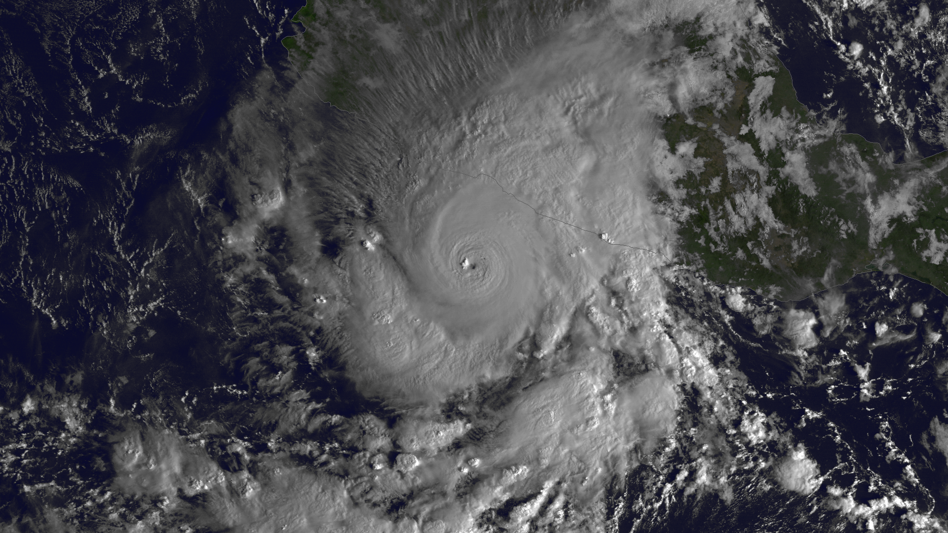 High-resolution visible satellite imagery of Hurricane Raymond near its peak as an upper-end Category 3 hurricane on October 21, 2013.